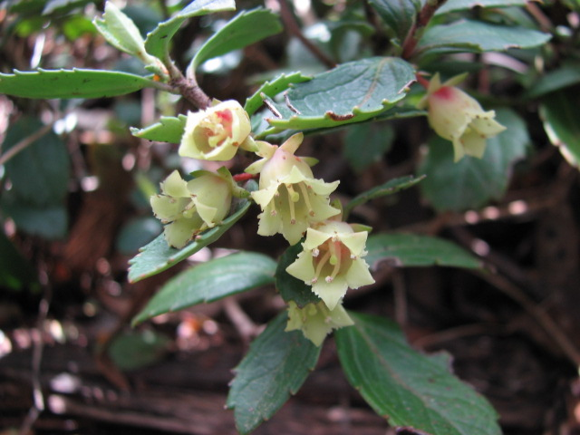 Wittsteinia vacciniacea Baw Baw National Park, Victoria, Australia